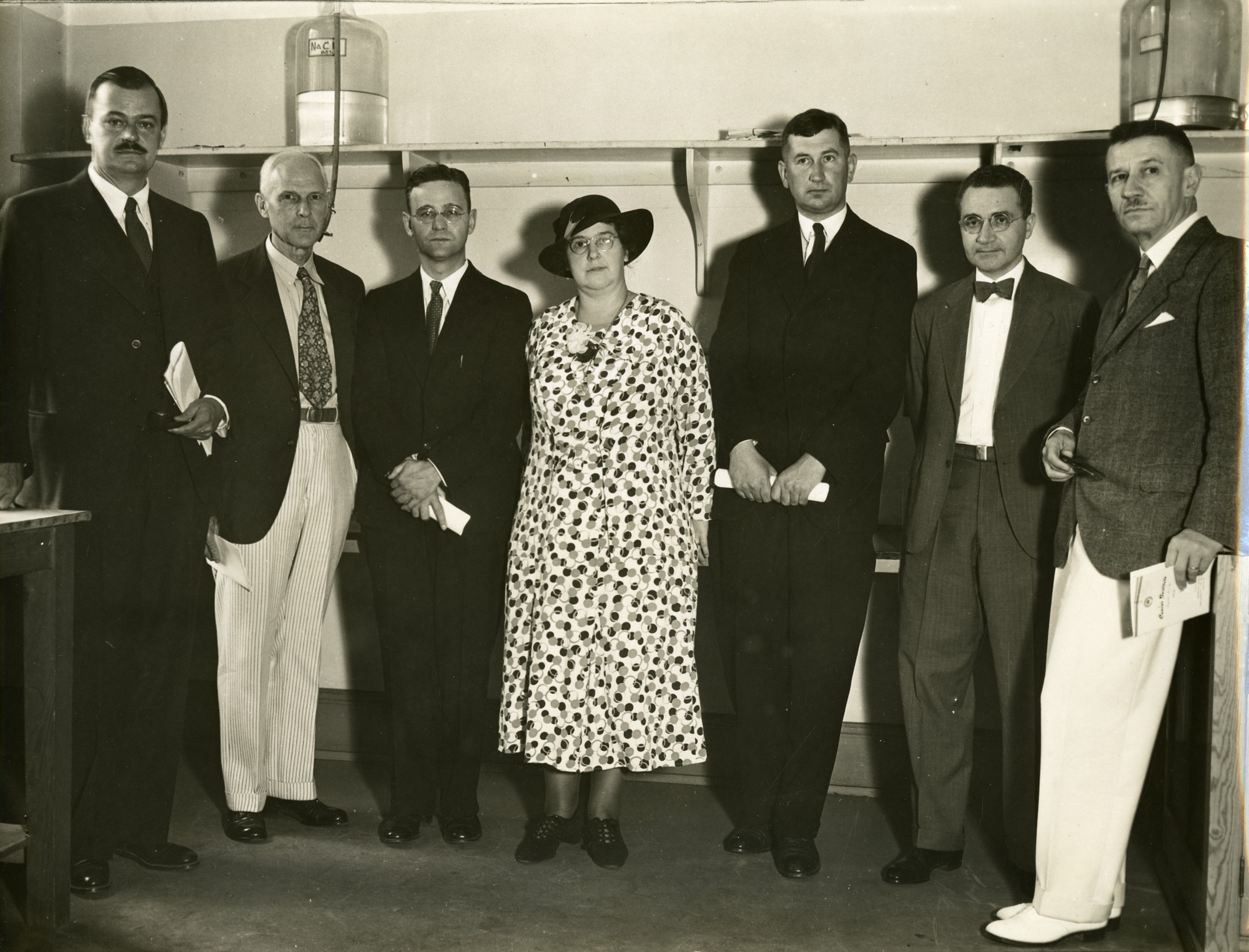 Subject: Yale University School of Medicine United States Public Health Service University of Western Ontario American Society of Human Genetics University of Oslo Memorial Hospital for Cancer and Allied Diseases of New York City University of Paris Type: Black-and-white photographs Date: 1937 C. 1937 Topic: Women scientists Local number: SIA Acc. 90-105 [SIA2008-5337] Summary: In this photograph, titled "Most Famous Cancer Researchers in the World," are shown (left to right): geneticist Clarence Cook Little (1888-1971); physiologist Edgar Allen (1892-1943); biologist Howard Bancroft Andervont (1898-1981); geneticist Madge Thurlow Macklin (1893-1962); physician Leiv Kreyberg (b. 1896); biophysicist Gioacchino Failla (1891-1961); and radiation oncologist Henri Coutard (1876-1950). At the time the photograph was taken, Little headed the Roscoe B. Jackson Laboratory, Bar Harbor, Maine; Allen was professor of anatomy at Yale University Medical School; and Andervont was with the U.S. Public Health Service. Macklin was then associate professor of histology and Embryology at University of Western Ontario, and later served as president of the American Society of Human Genetics. Kreyberg taught at the University of Oslo; Failla was then working at the Cancer Memorial Hospital of New York City; and Coutard was chief of the department of x-ray therapy for cancer at the Radium Institute, University of Paris Cite as: Acc. 90-105 - Science Service, Records, 1920s-1970s, Smithsonian Institution Archivess Persistent URL:Link to data base record Repository:Smithsonian Institution Archives View more collections from the Smithsonian Institution.